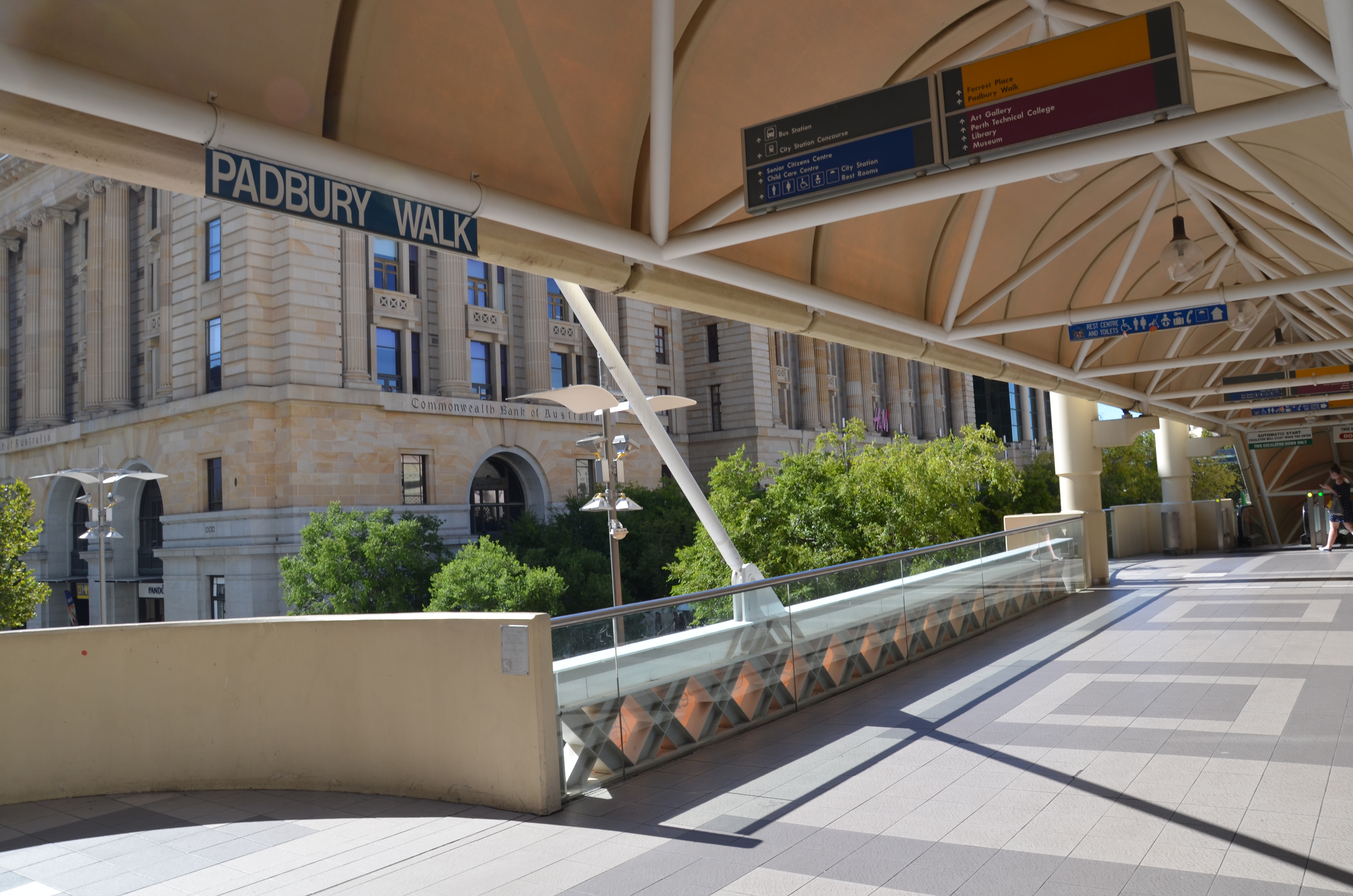 Padbury walk sign and Forrest Place buildings in view - demolished during 2018 reconstruction of outer Myer building structures